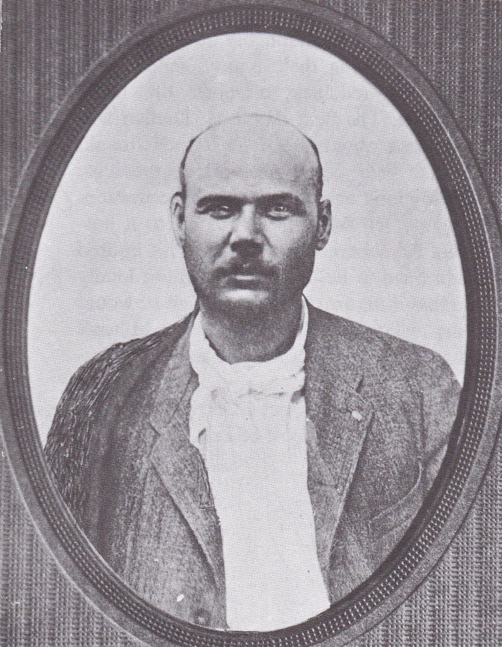 Arizona lawman and train robber Burt Alvord, from "Ghost Towns of Arizona" (Sherman, 1969).